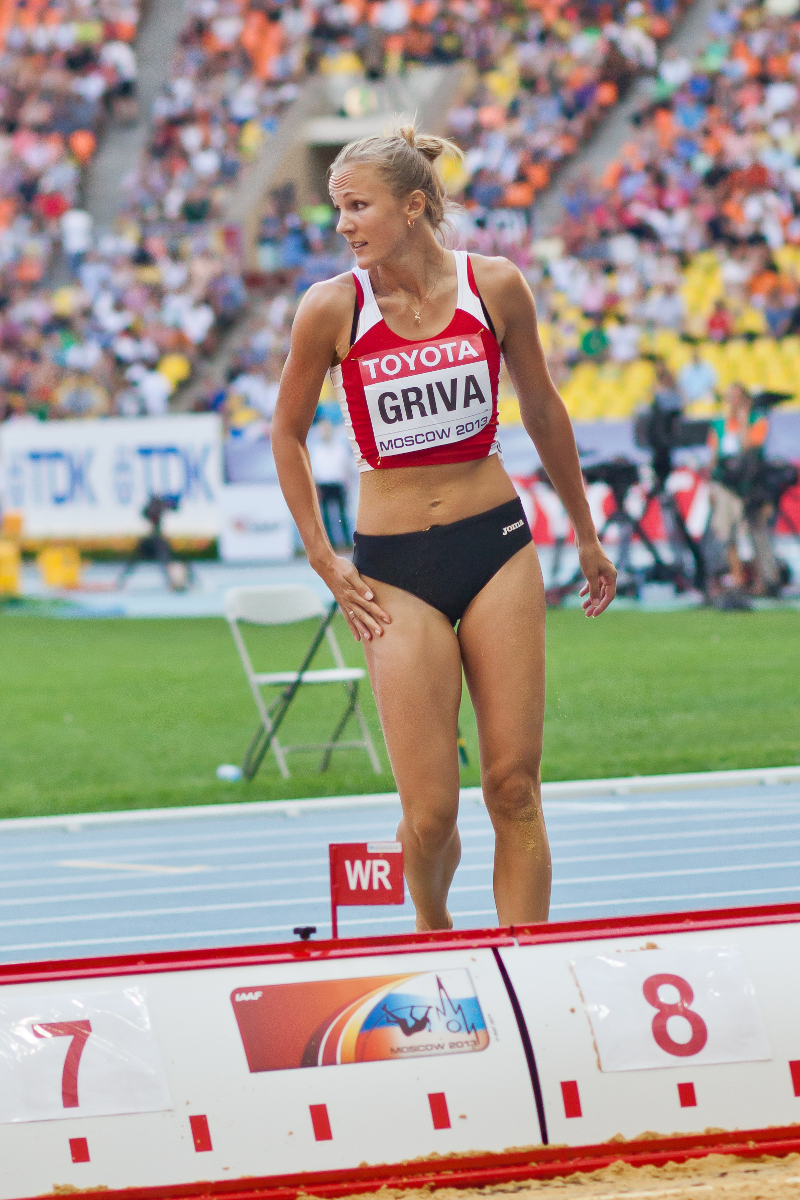 Lauma Grīva during 2013 World Championships in Athletics in Moscow.